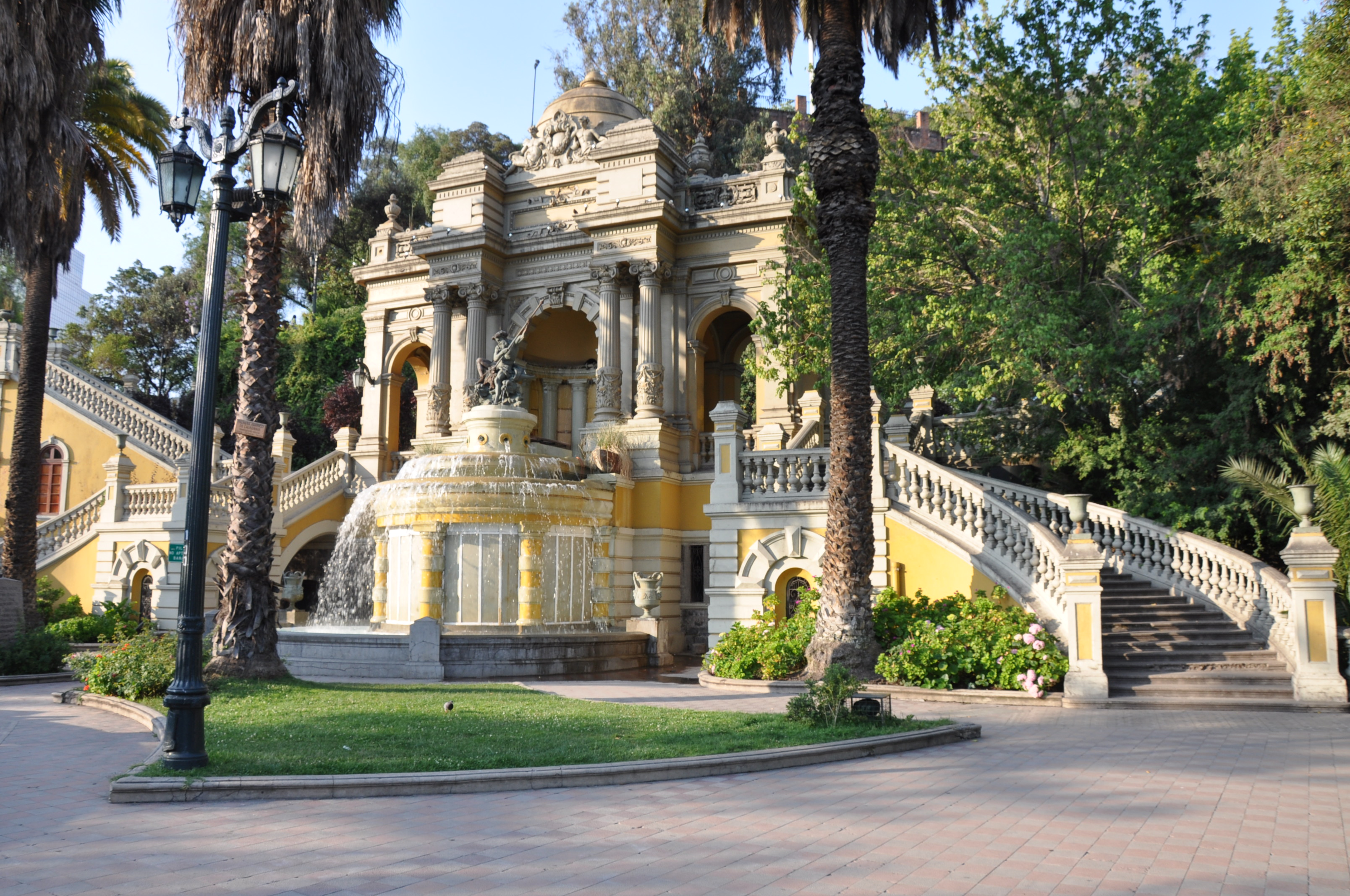 Santa Lucía Hill (Spanish: Cerro Santa Lucía) is a small hill in downtown Santiago, Chile. It borders on Alameda del Libertador Bernardo O'Higgins in the south (there is a metro station near the hill whose name is homonymous), Santa Lucía Street in the west and Victoria Subercaseaux. Santa Lucia Hill has an altitude of 629 m and a height of 69 m. It has a surface of 65.300 m2. Adorned previously with ornate facades, stairways, and fountains, today an adjacent metro station is named for it. Atop the hill, there is a vista point unsurpassed inside Santiago except by Cerro San Cristóbal.